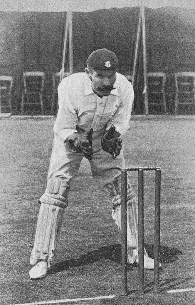 Scan of cricketer Henry Wood